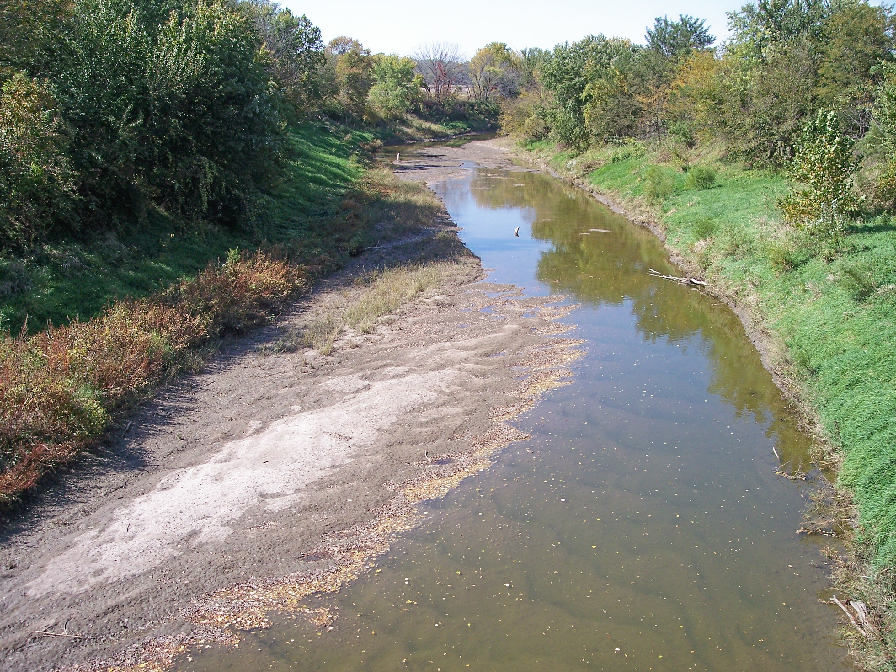 The Wolf River in Doniphan County, Kansas, as viewed from 225th Road